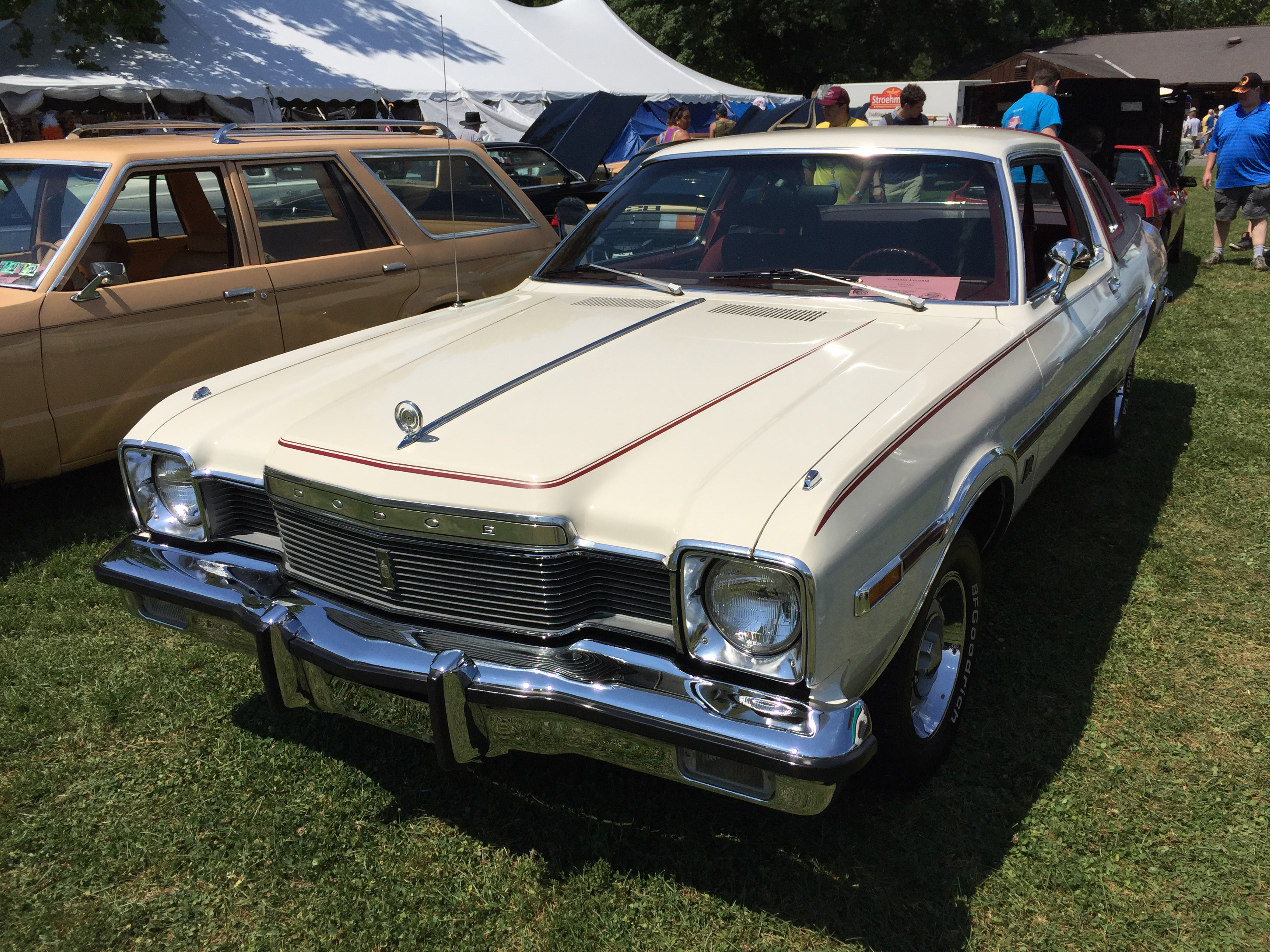 1976 Dodge Aspen SE coupe. All original, factory condition. Picture taken at the 52nd Annual "Das Awkscht Fescht" antique car show in Macungie, Pennsylvania.